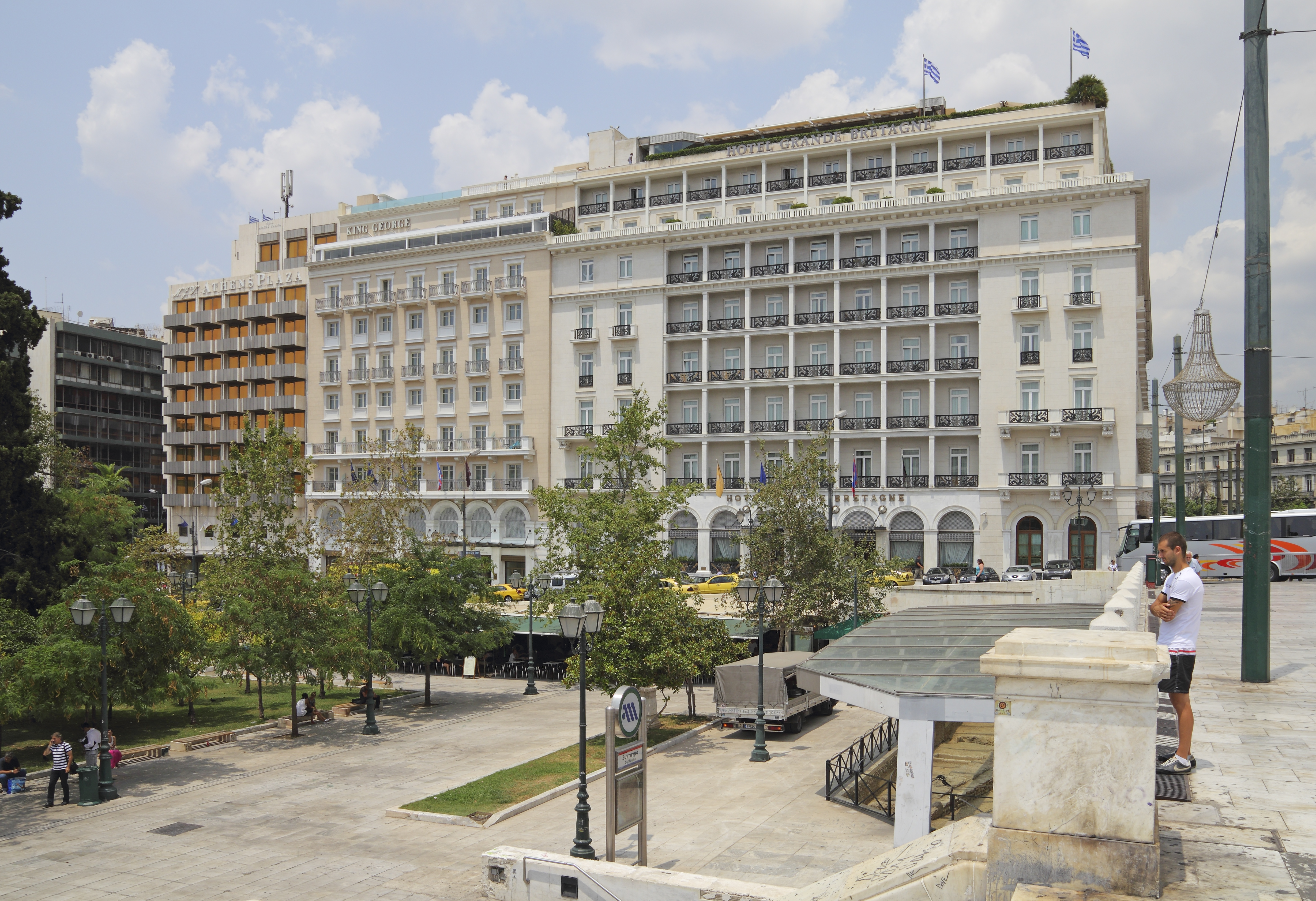 Hotel «Grande Bretagne» at Syntagma (Constitution Square) in Athens (Attica, Greece)